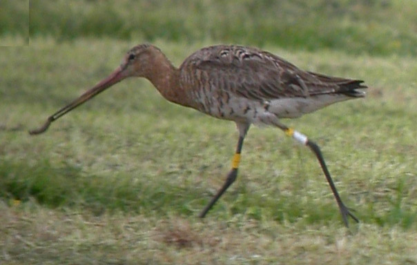 colour-ringed Black-tailed Godwit eating an earthworm